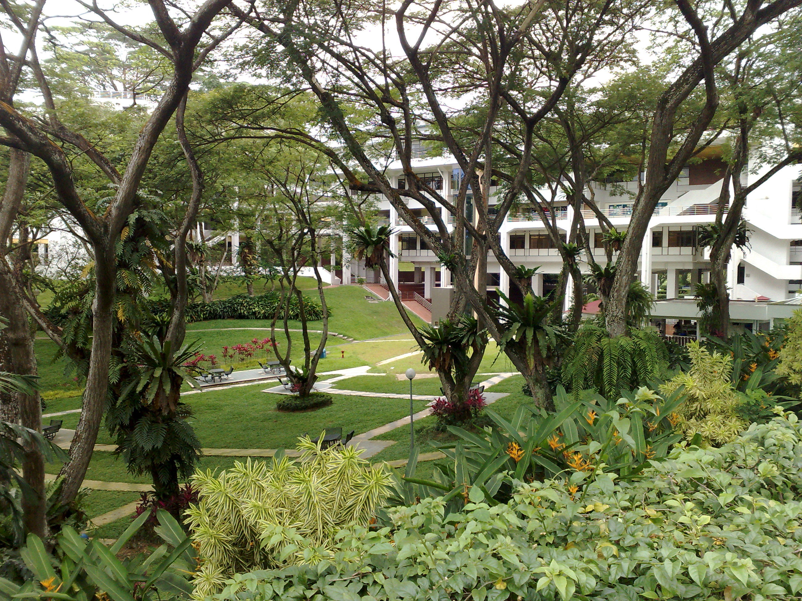 An open space near the Central Library of the National University of Singapore.